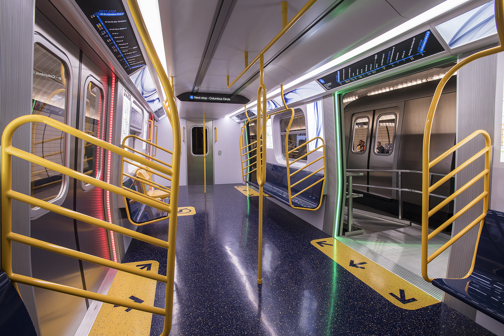 Customers had the opportunity to see the new car design and its features up close from Thursday, Nov. 30 through Wednesday, December 6. at the 7 line subway station mezzanine at 34 Street-Hudson Yards. MTA Photo Credit: MTA New York City Transit / Marc A.Hermann.